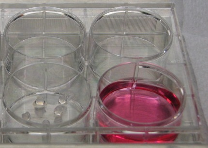 Alginate Constructs and DMEM